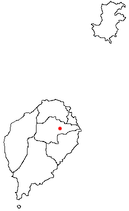 Map of São Tomé and Príncipe showing Trinade.